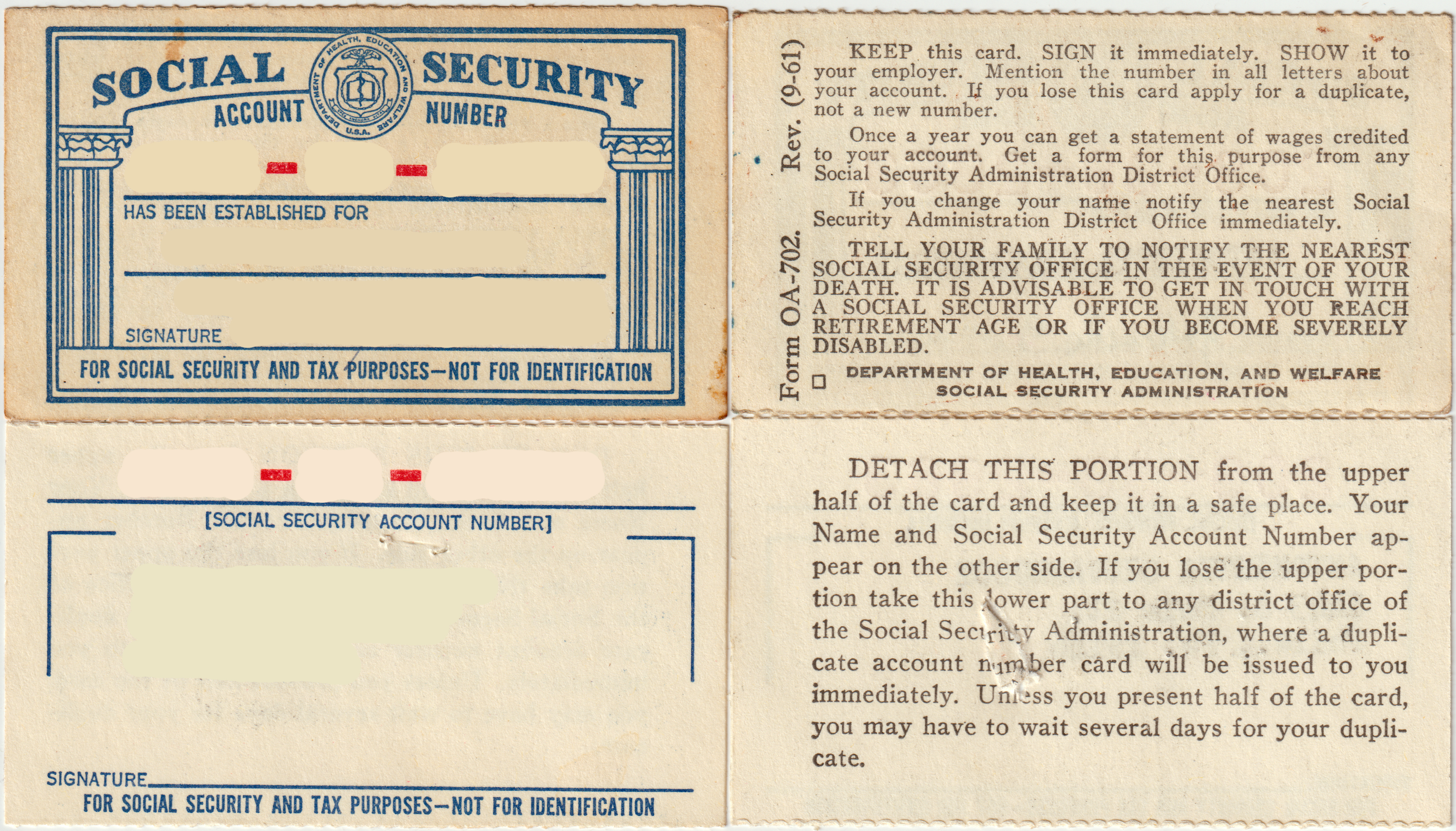 Social Security card, front and back, top and bottom, Form OA-702. Rev. (9-61)